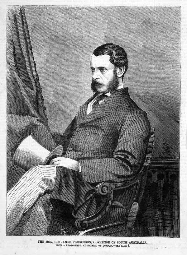 Engraving of Sir James Fergusson, 6th Baronet.